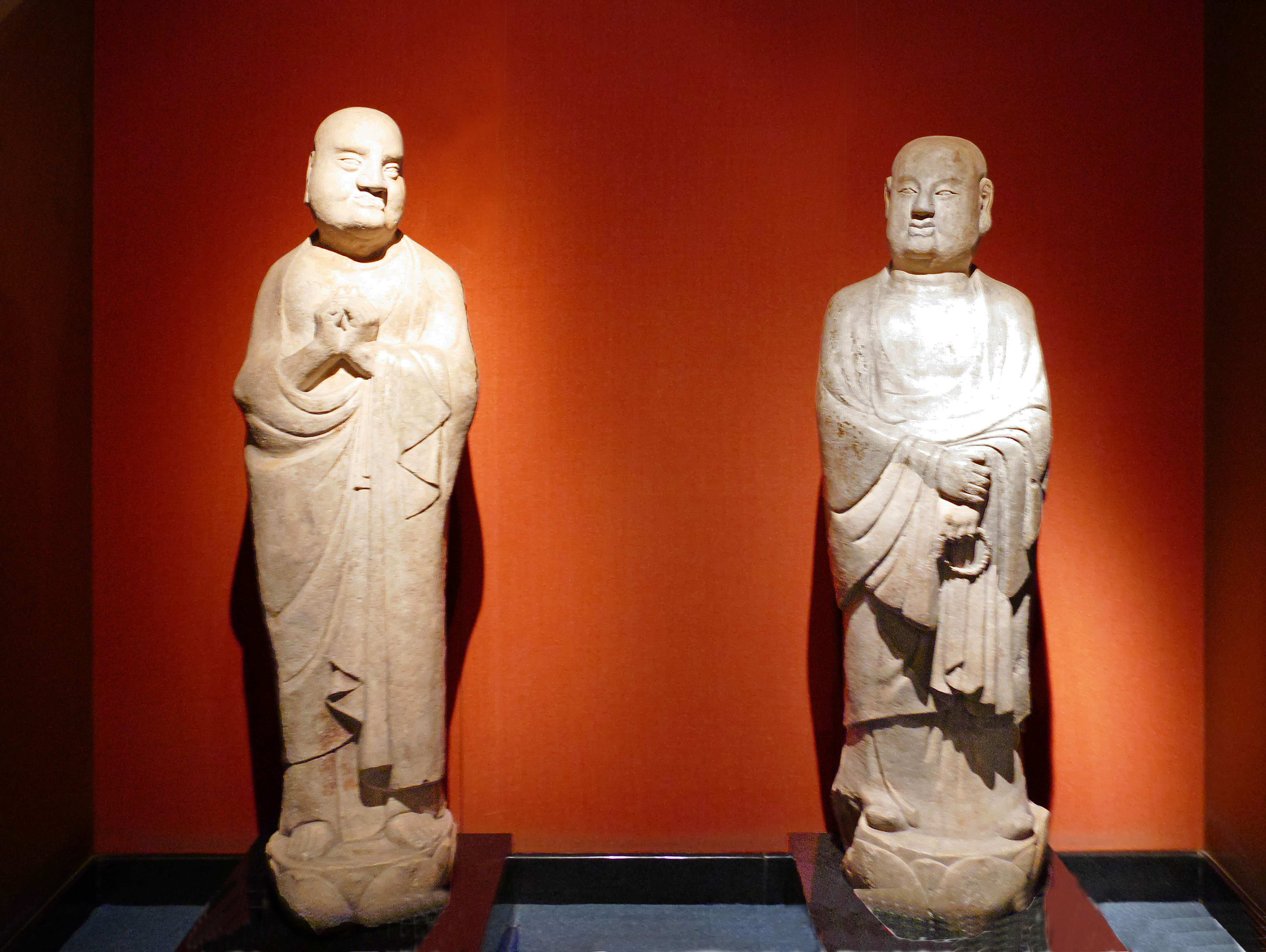 Kasyapa and Ananda, Stone, Song, A.D. 960-1279